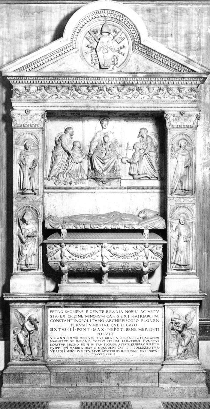 BREGNO, Andrea Tomb of Cardinal Pietro Riario 1474-77 Marble, 650 x 341 cm Santi Apostoli, Rome